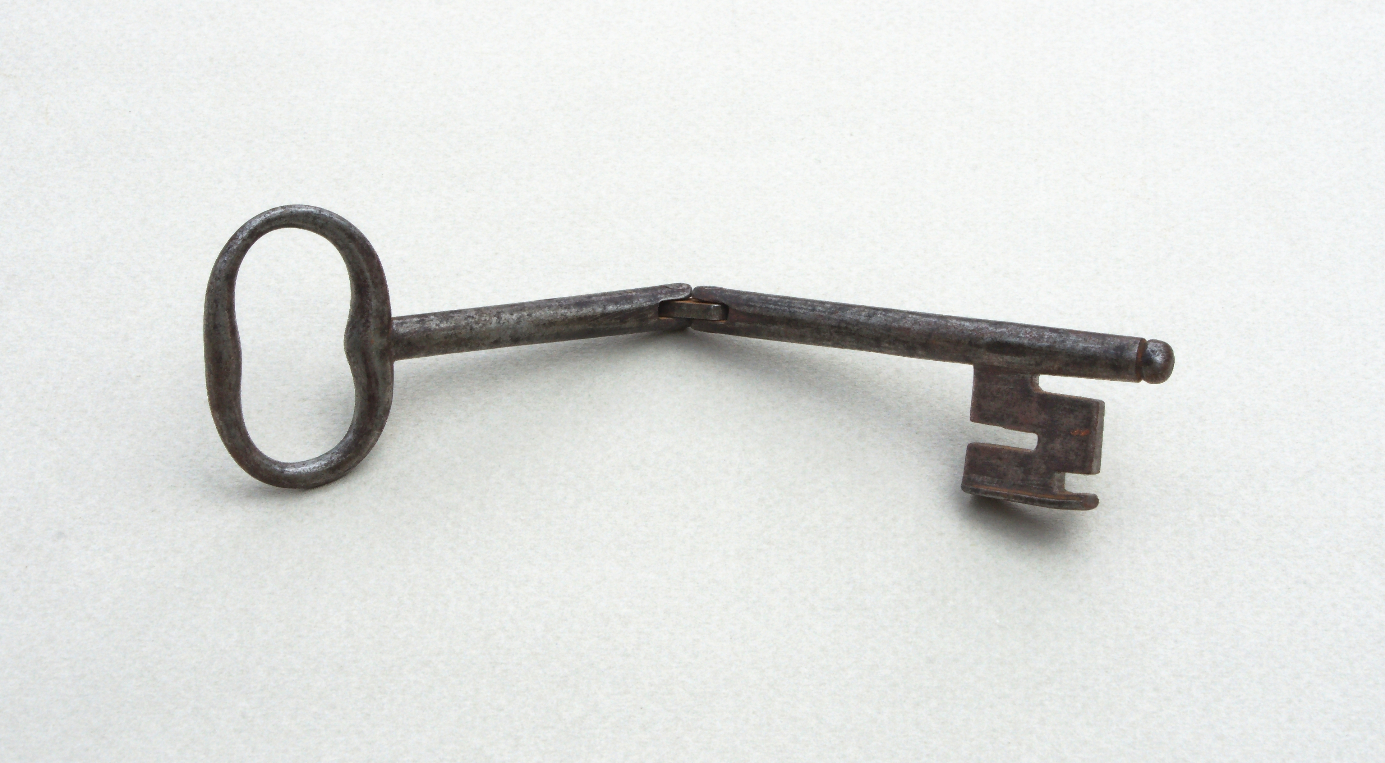 Key modified to be folded (ca 1900), Vienne, France.